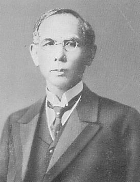 Jinzo Naruse